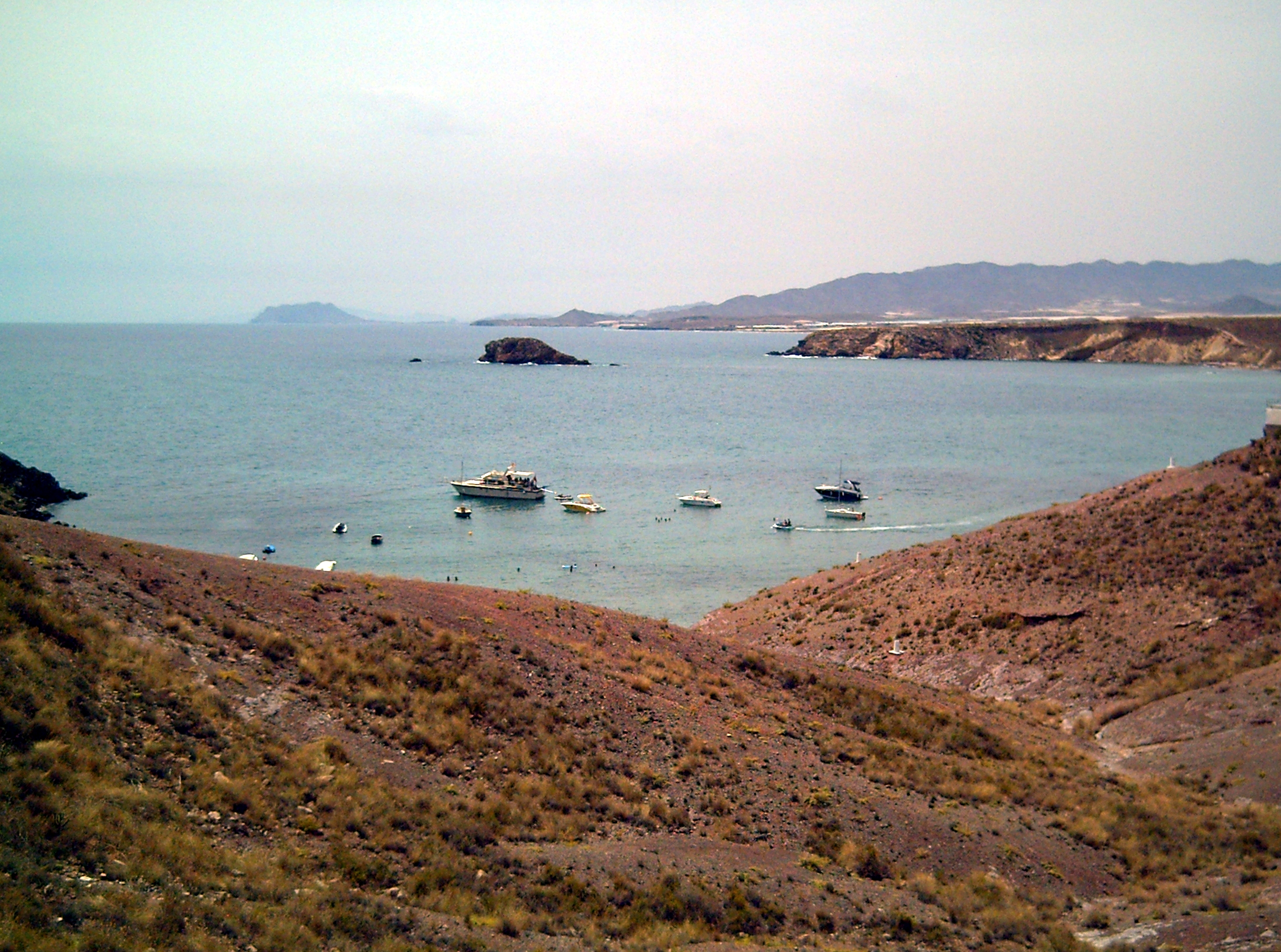 The bay of Mazarrón